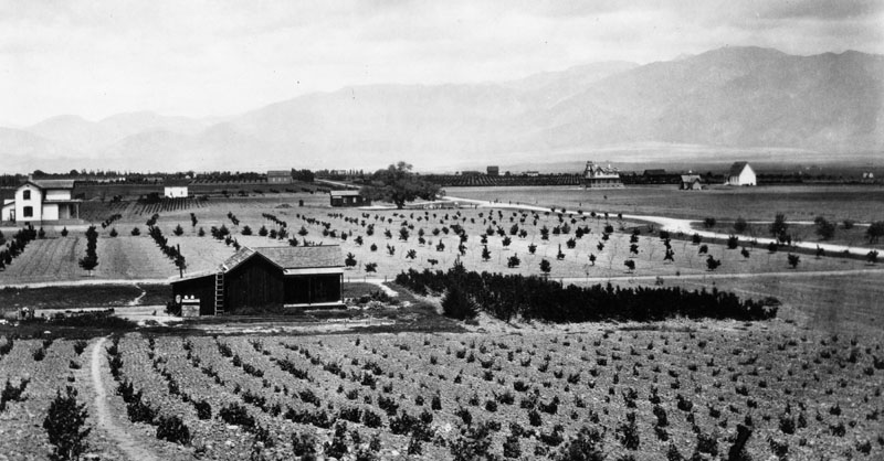 View of Pasadena from south Orange Grove Avenue in 1876.